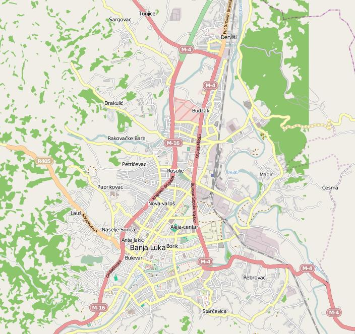 Street map of Banja Luka.